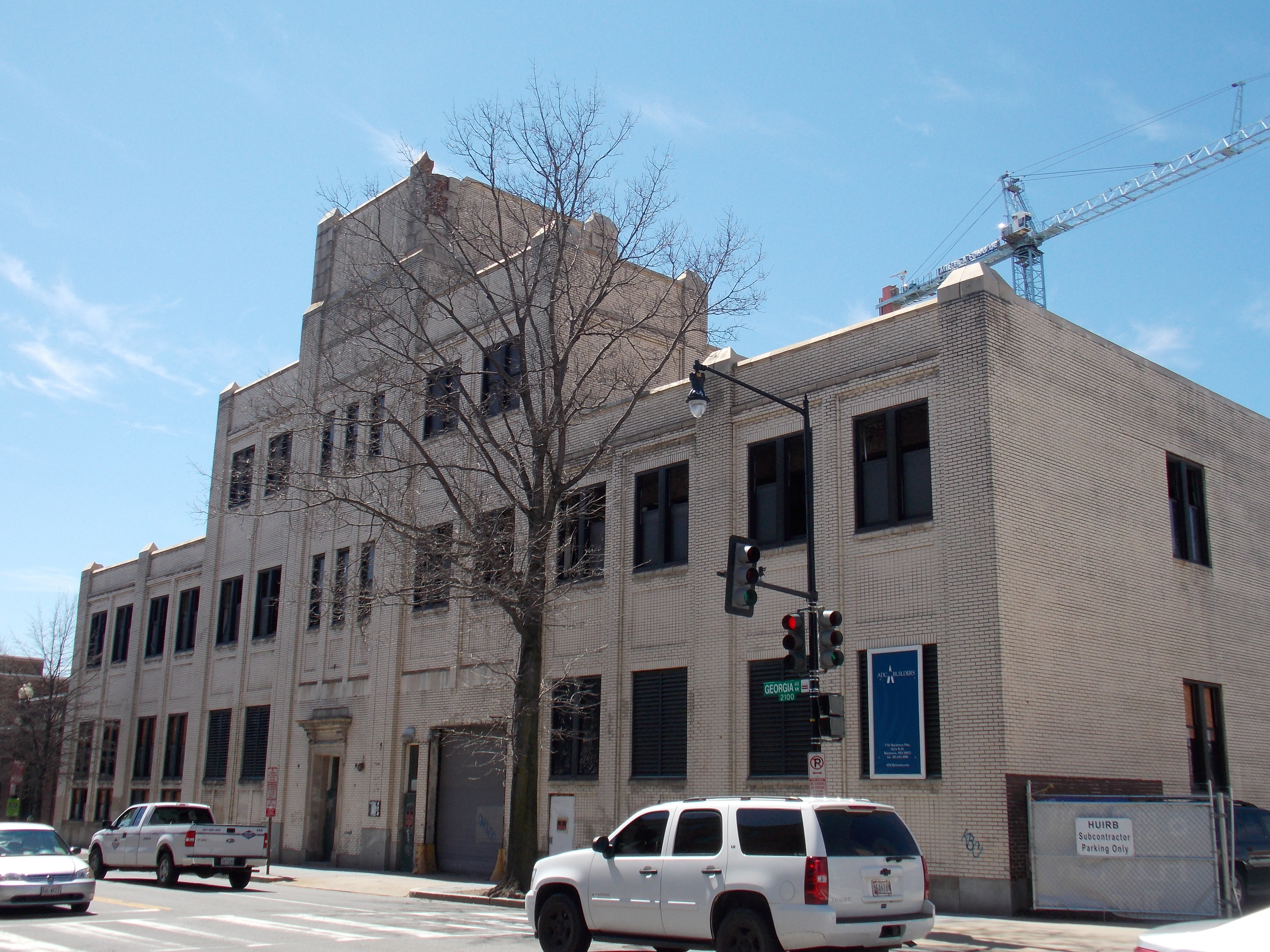 General Baking Company Bakery building on Seventh Street, NW, Washington D.C. is listed on the National Register of Historic Places.